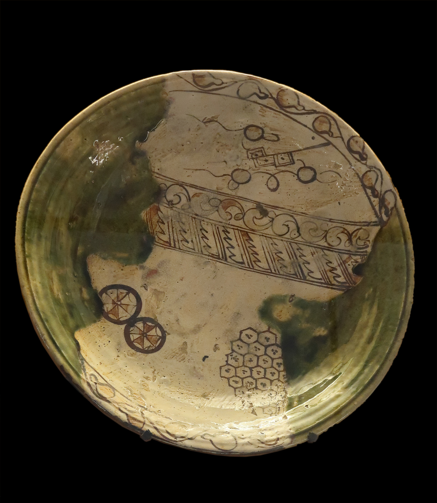 Oribe type dish. Edo period. Japan. Mino ovens. Stoneware, green glaze, iron oxide. D. 43.5 cm. Lyon Museum of Fine Arts. Inv. E 554-501